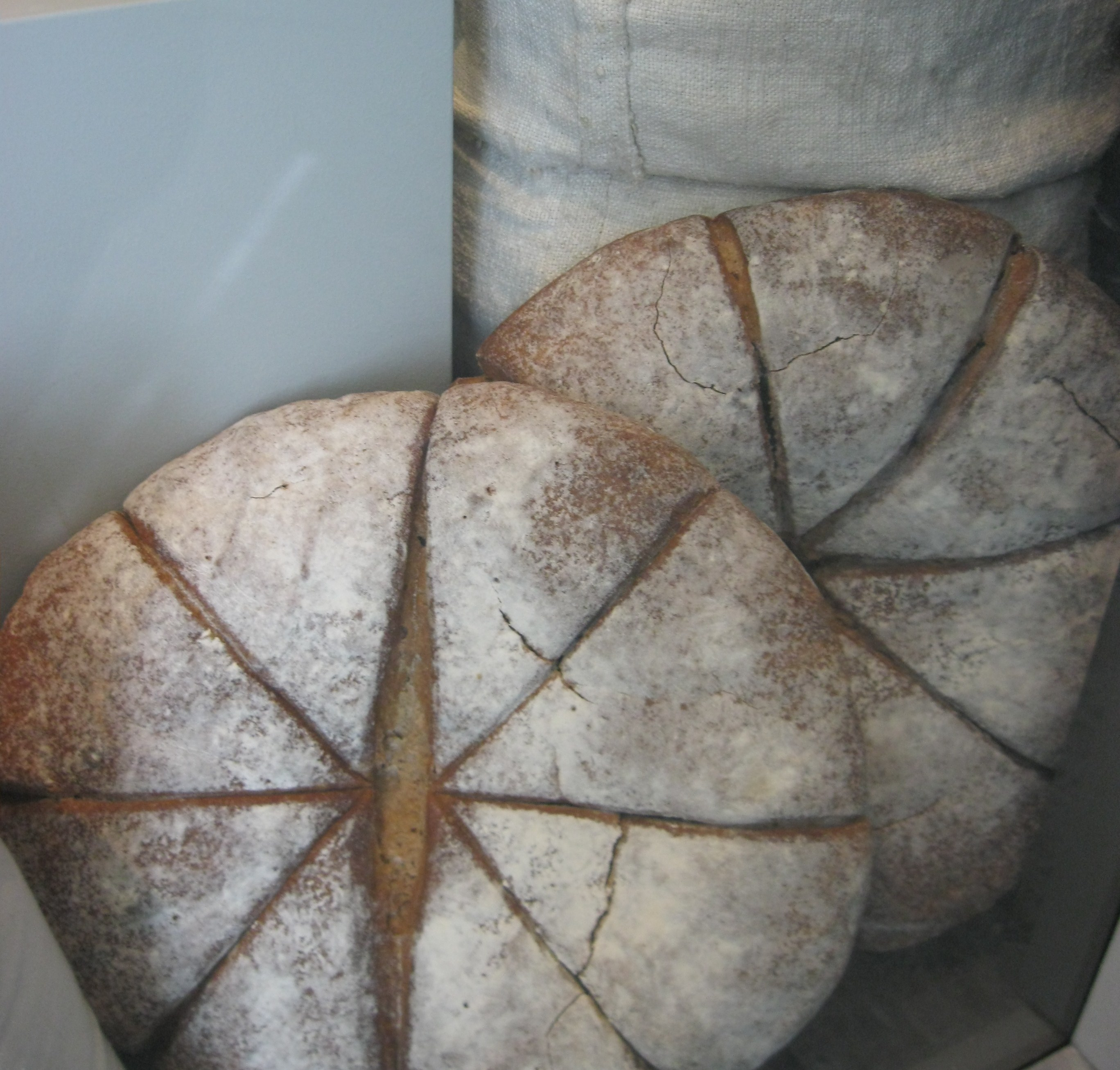 Roman bread. Museum in Karlsruhe